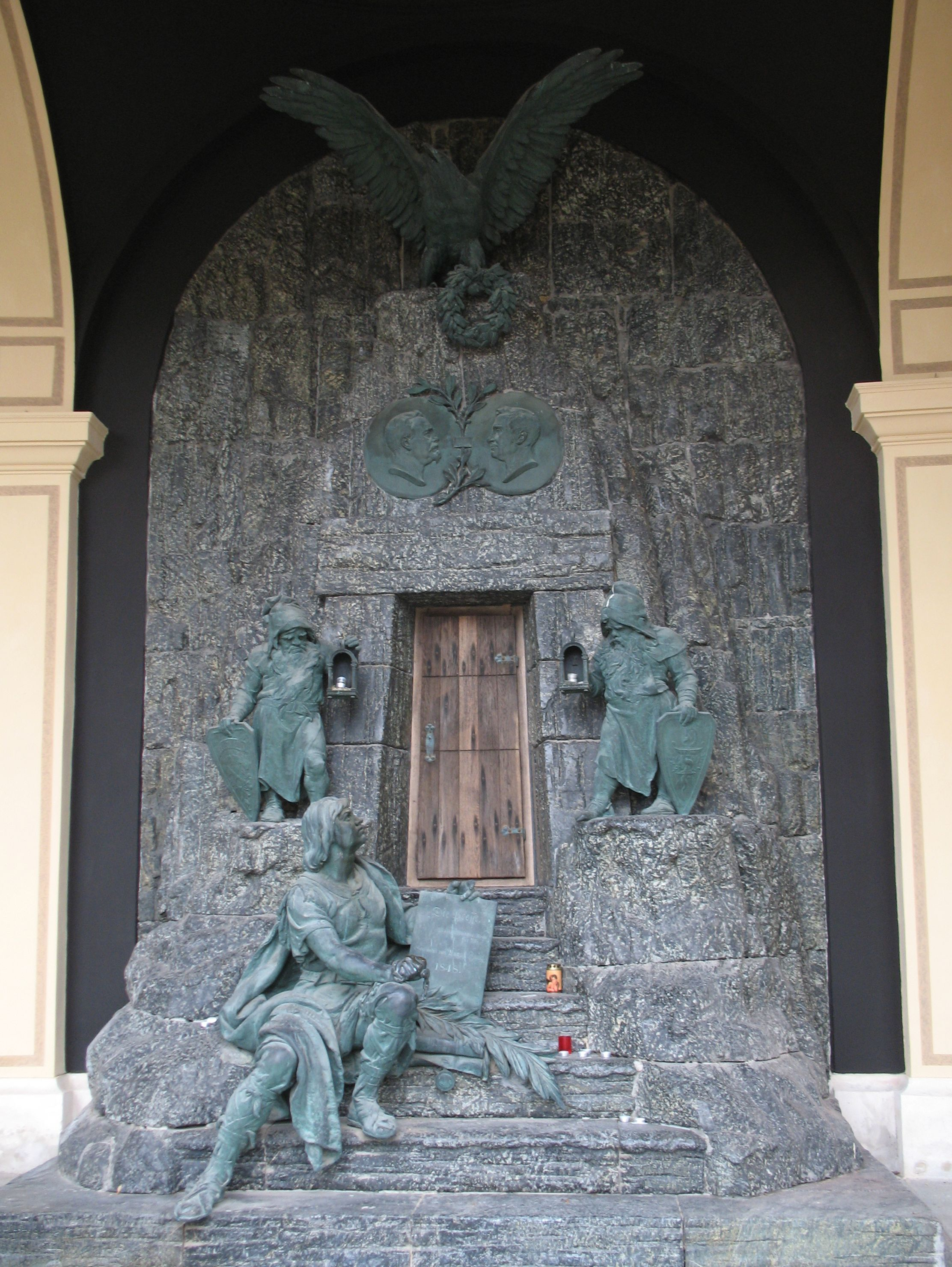 Burial vault of August Zang in Vienna, Austria